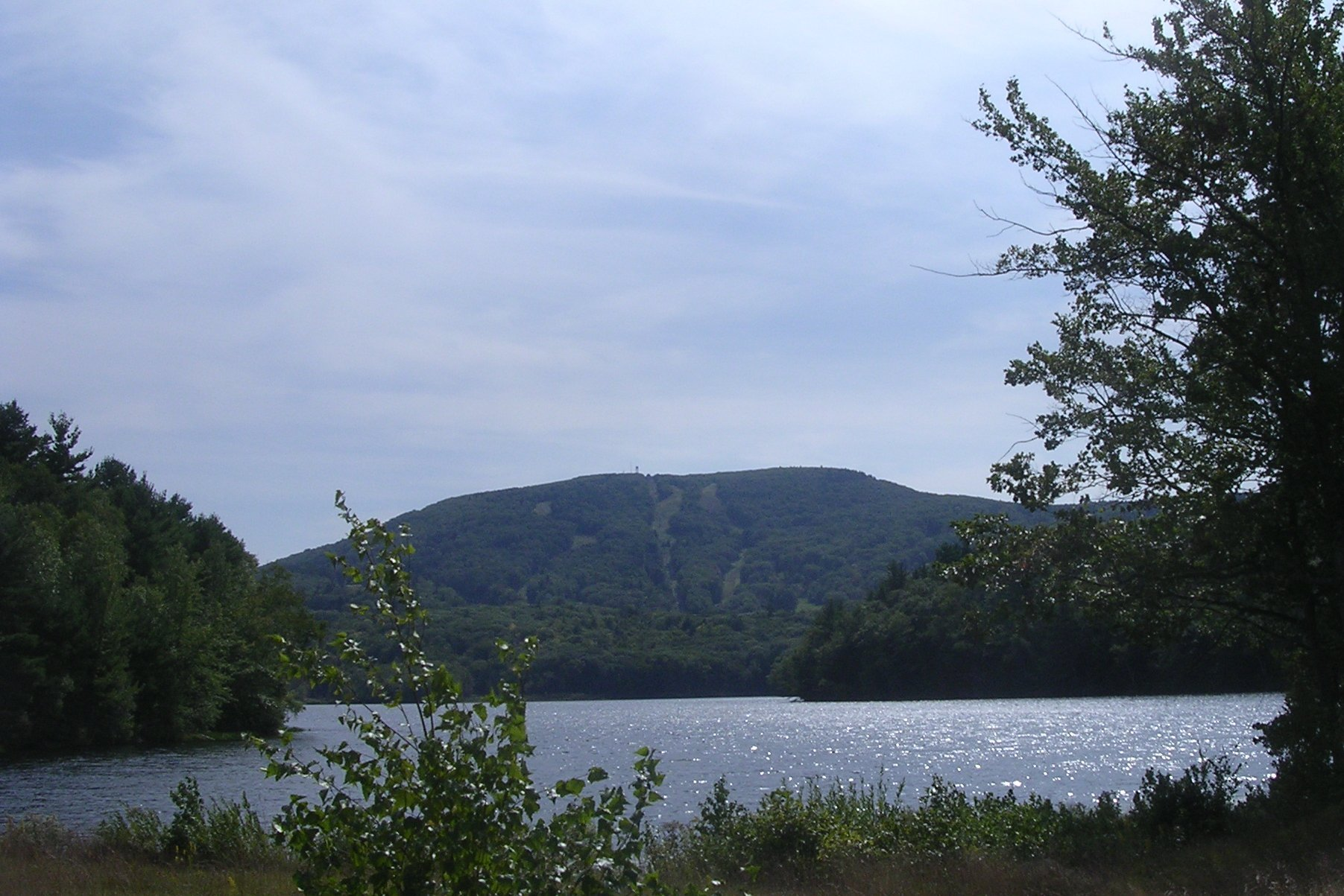 View of Mount Wachusett and Wachusett Lake from Westminster Massachusetts